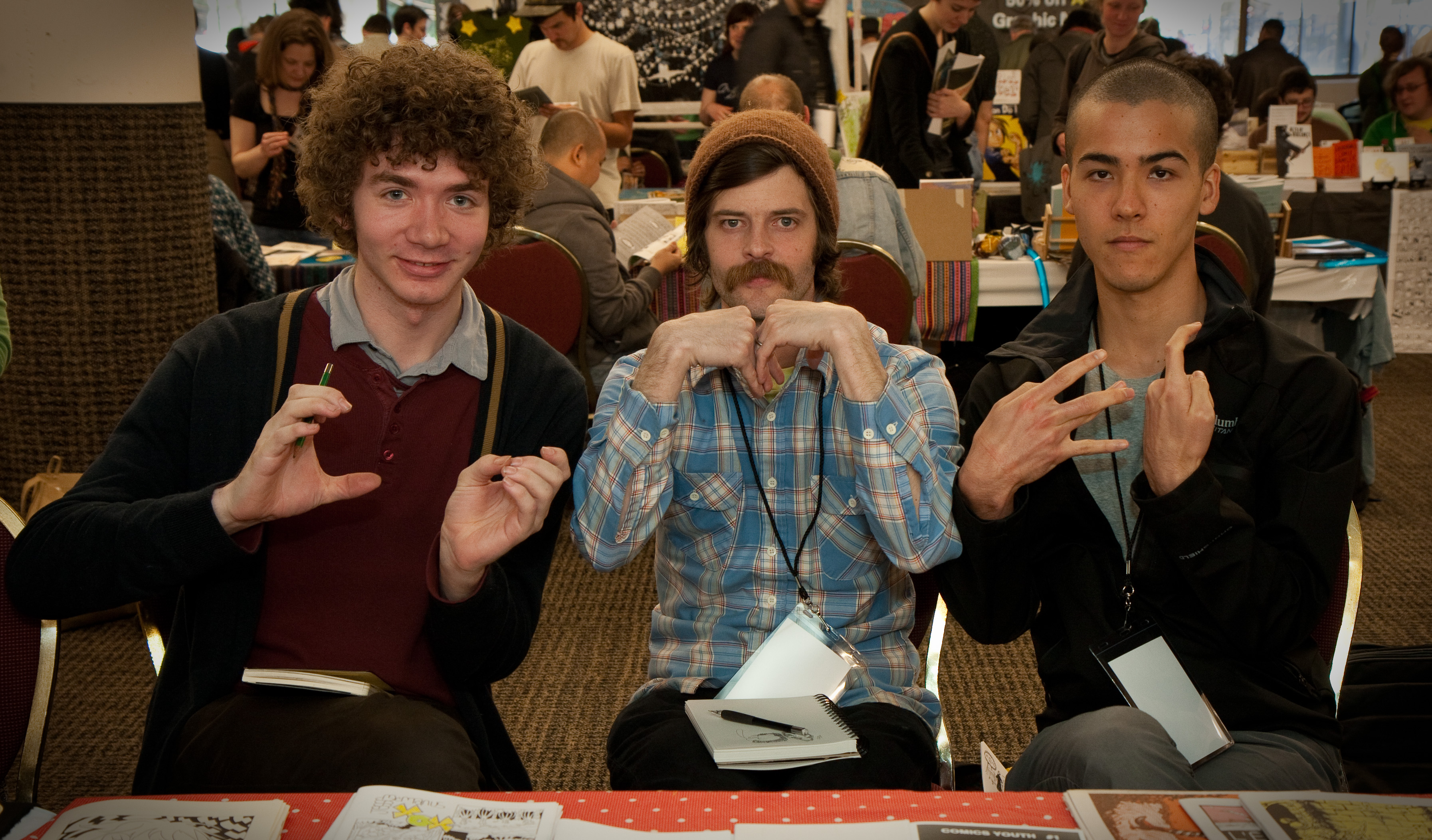 Jesse McManus, Jason Overby, Blaise Larmee at the 2010 Stumptown Comics Fest